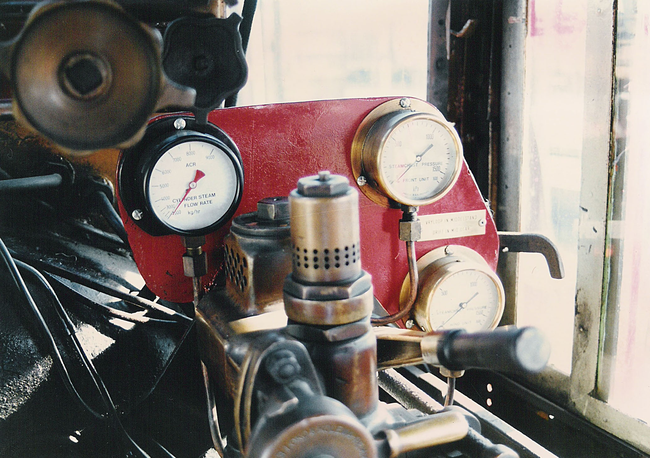 ACR Class NG G16A 141 (2-6-2+2-6-2) steamchest pressure gauges and cylinder steam flow gauge. The plate reads "Vryloop in middelstand - Drift in mid gear"